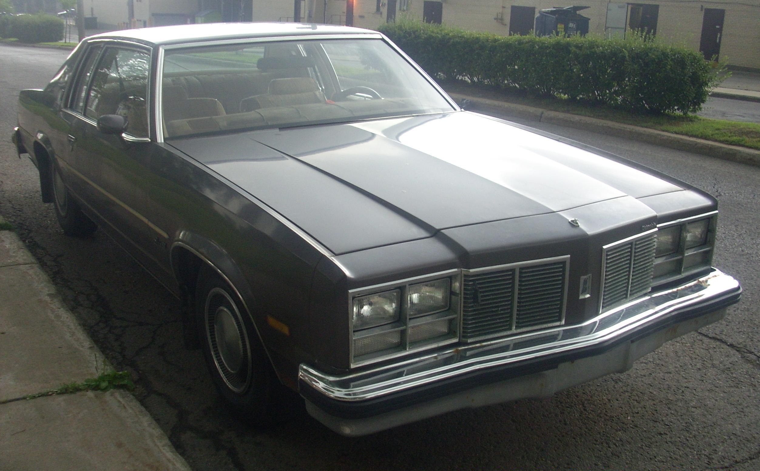 1977 Oldsmobile Delta 88 photographed in Laval, Quebec, Canada.